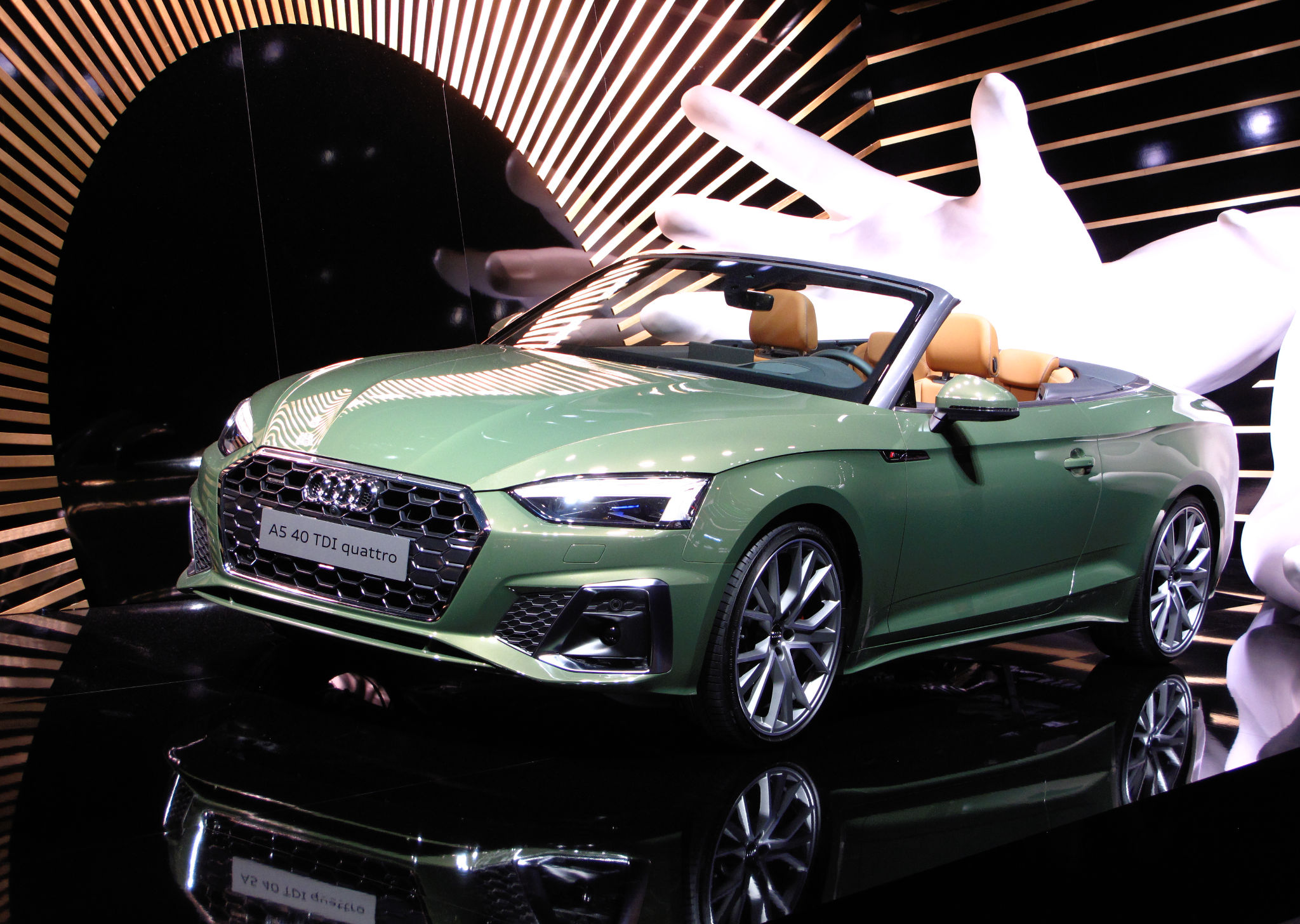 IAA Frankfurt 2019 Audi A5 Cabriolet 40 TDI quattro S-Line Audi had a wide range of world premieres at the 2019 Frankfurt Motor Show, including the refreshed A5.